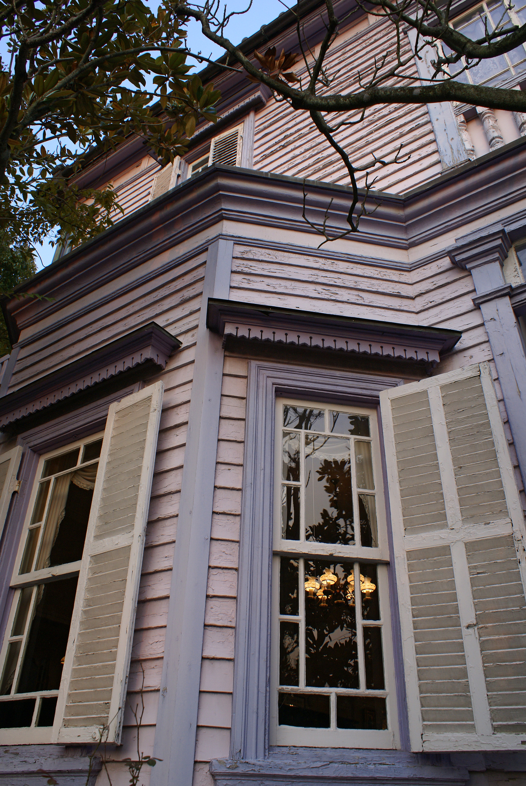 Old Down House of Shikokumura in Takamatsu, Kagawa prefecture, Japan